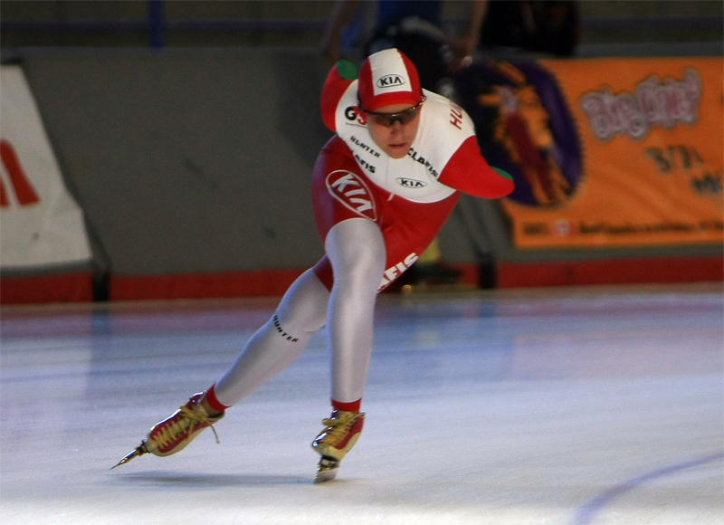 Ágota Lykovcán (Tóth)speedskater at Olympic Oval, Calgary in 2009